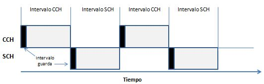 coche3